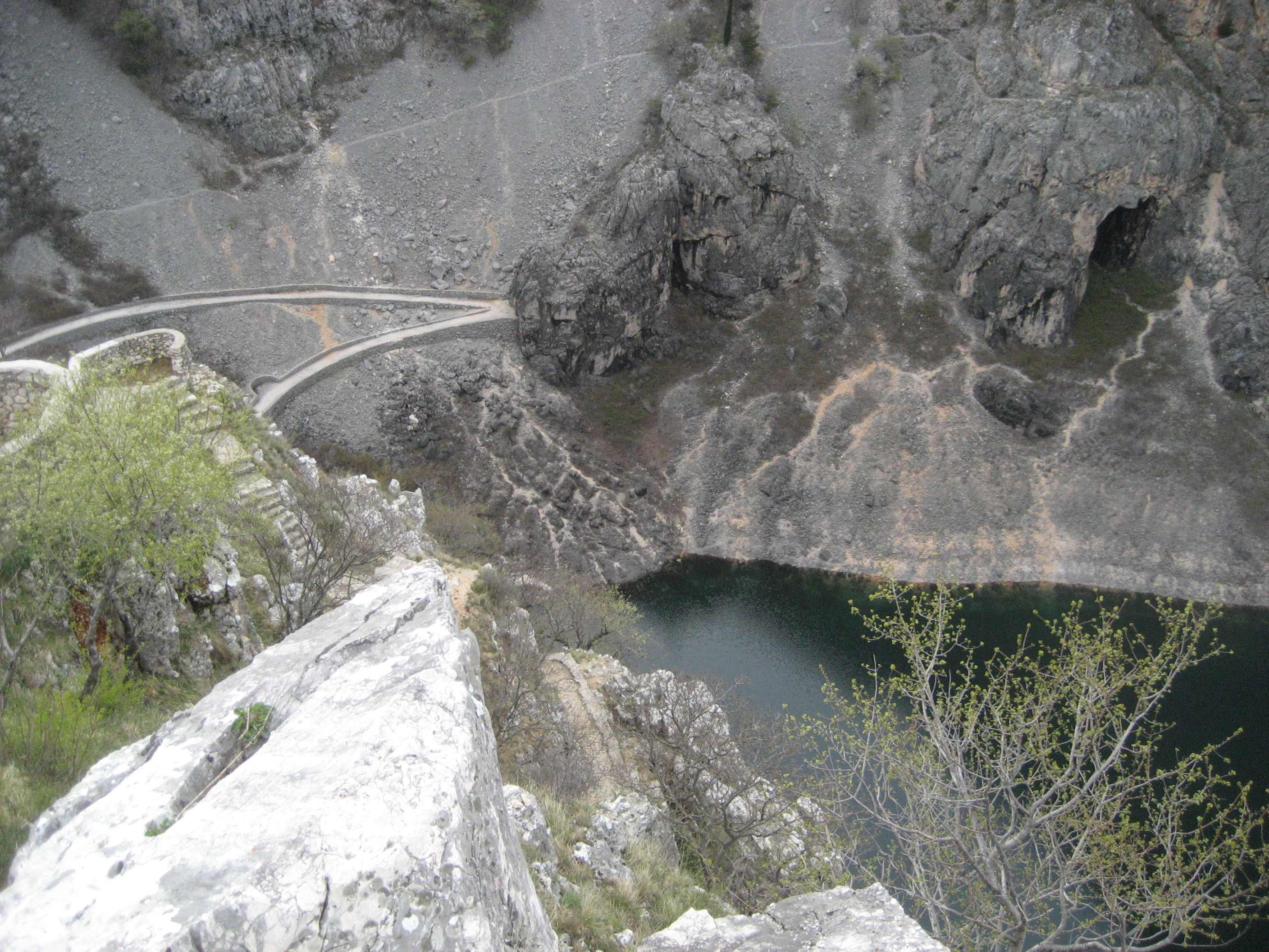 Plavo Jezero, near Imotski in Croatia